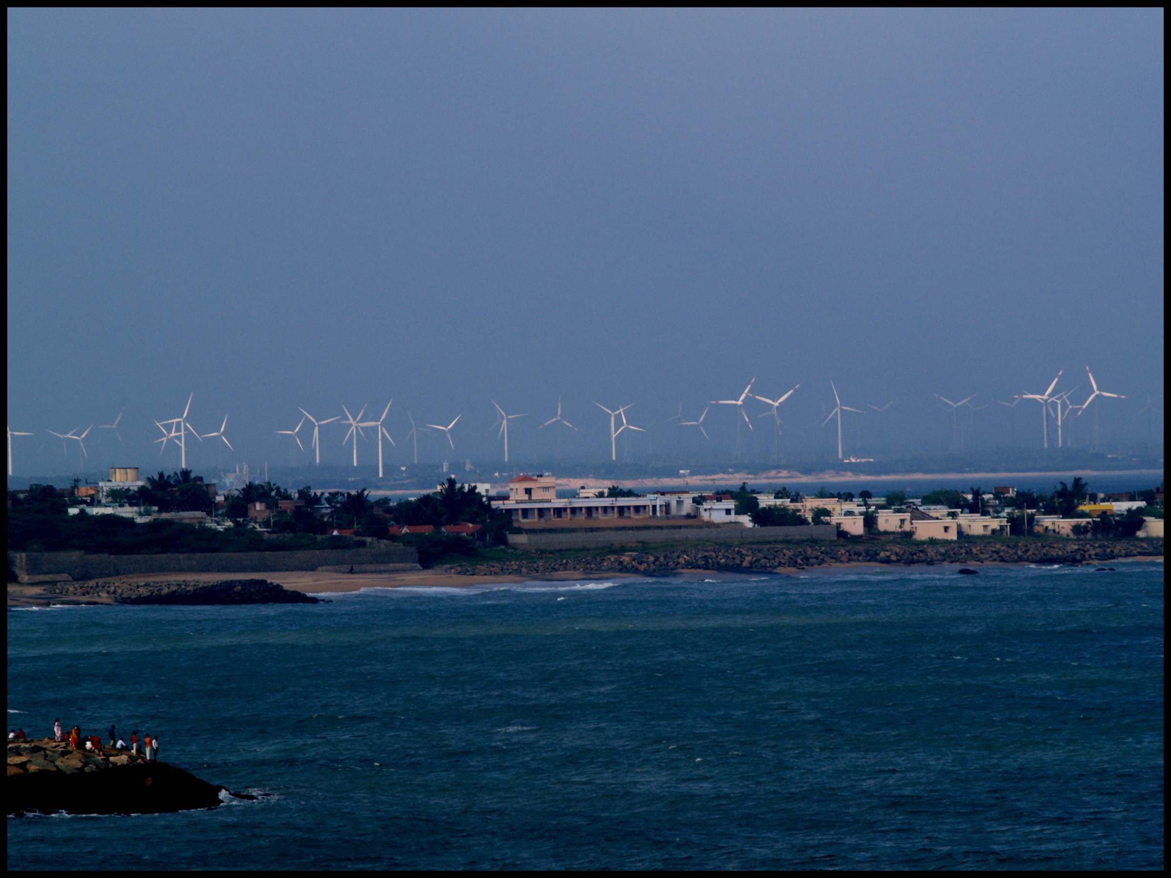 Kanyakumari, Tamil Nadu India Wind mills Alternate energy sources Power generation